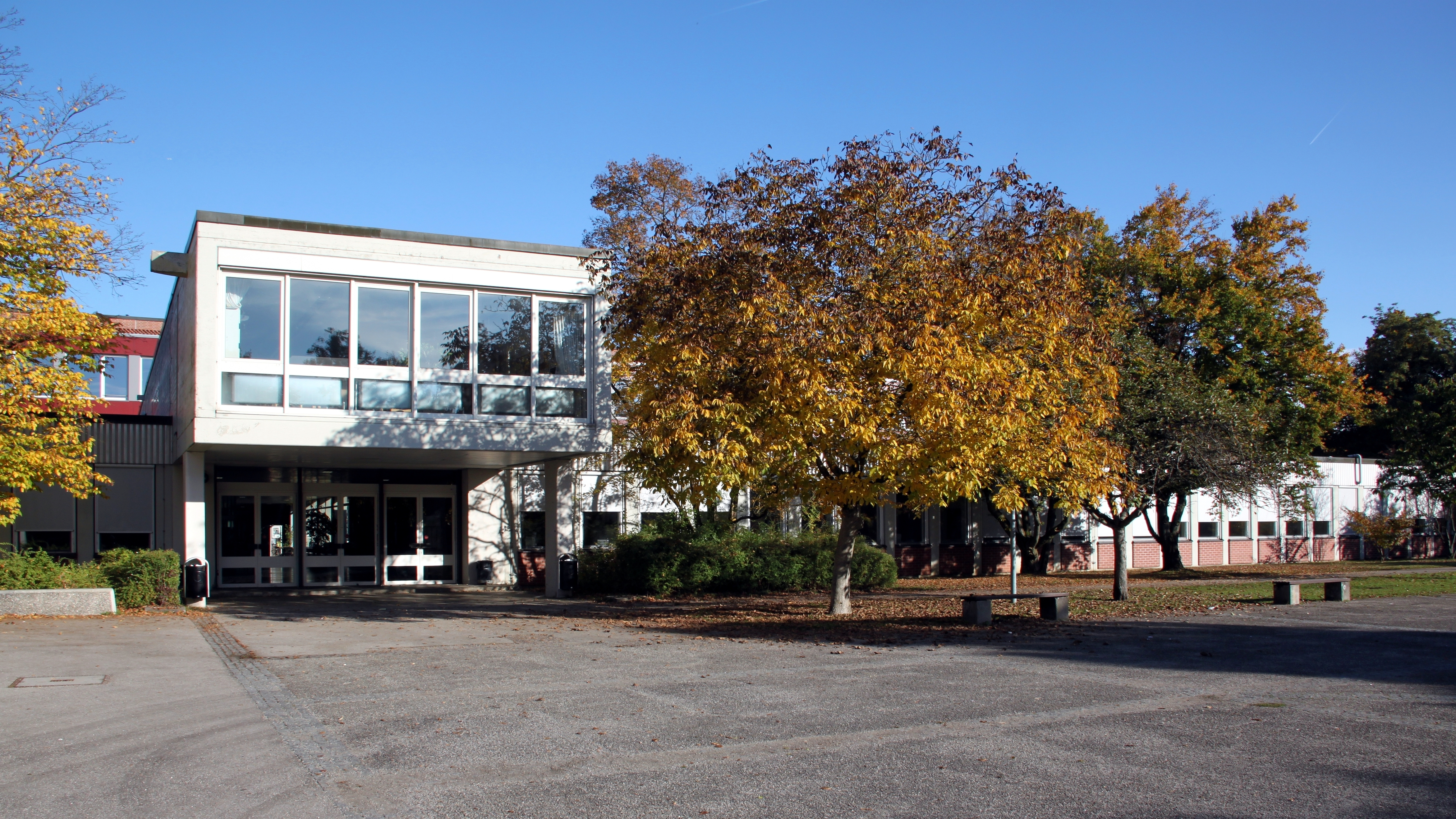 Max-Planck-Gymnasium (Munich-Pasing, 29 Weinbergerstraße): View from the south (schoolyard): break hall and teachers' room (left), scientific classrooms (very left, right), general classrooms (back left).